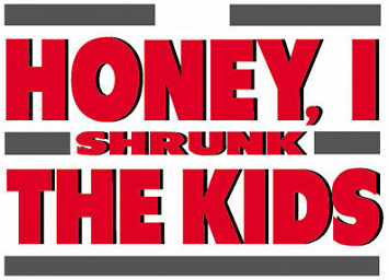 Honey, I Shrunk the Kids logo.